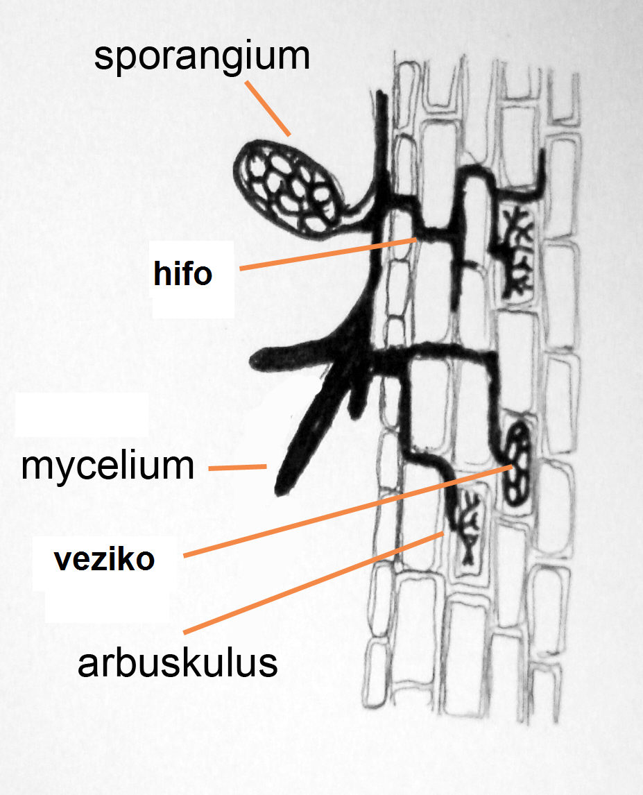 arbuscular mycorriza, czech version. i can provide you with my image without the words.